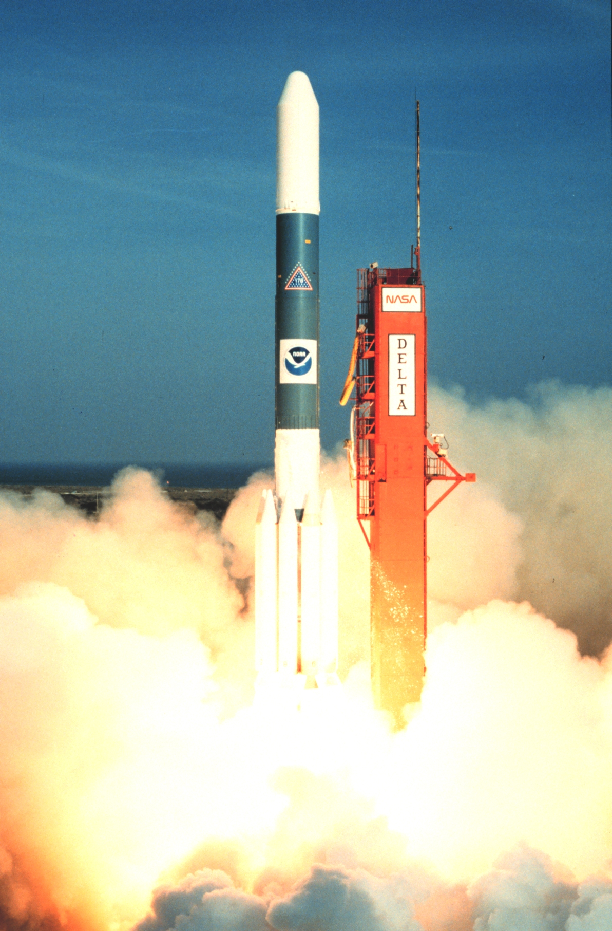 GOES G going for a short ride aboard Delta Launch Vehicle 178. 71 seconds into the mission the first stage engine shut down necessitating destruction 20 seconds later.